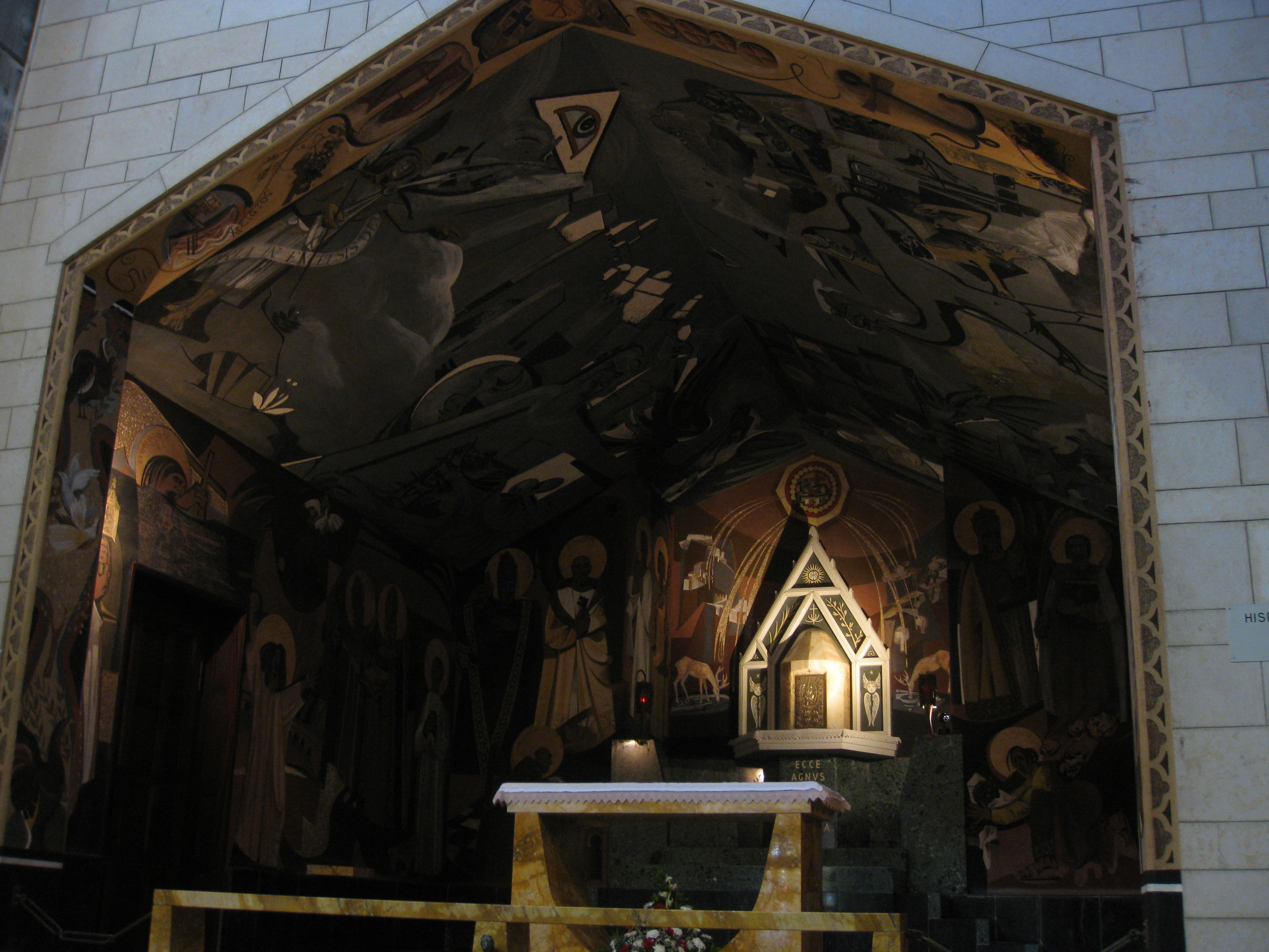 The Church of the Annunciation כנסיית הבשורה בנצרת Mural donated by Spain